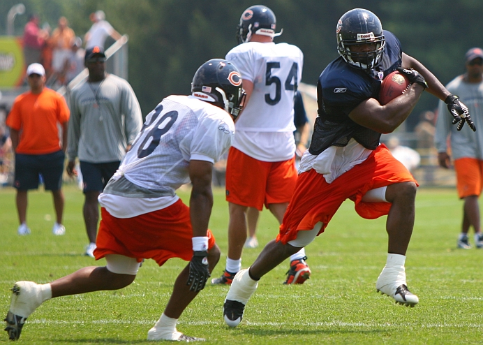 I took this picture of Jason McKie on July 2, 2007 at the Chicago Bears 2007 Training Camp.